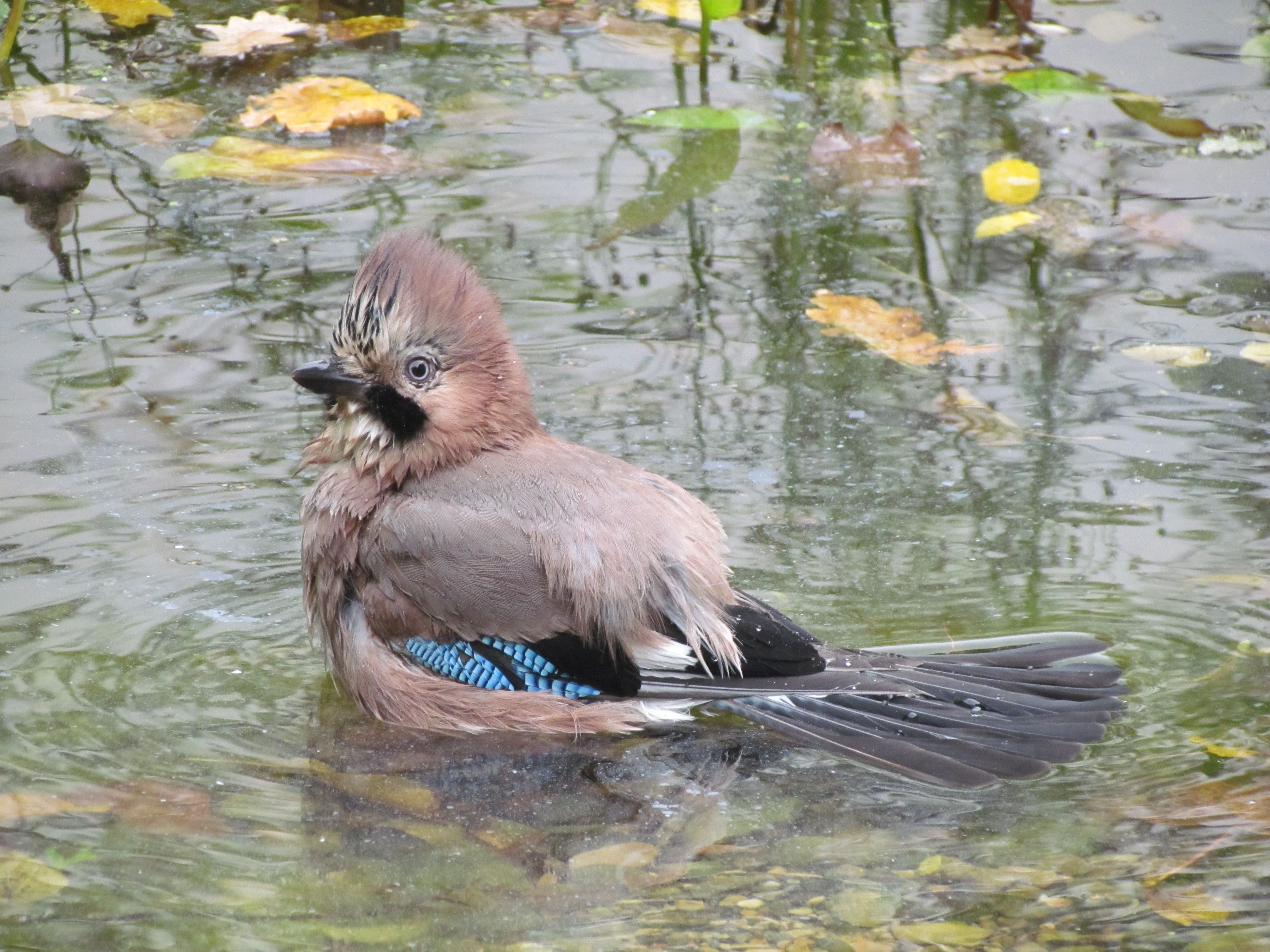 An Eurasian Jay (Garrulus glandiarius) while bathing; Hannover, Germany